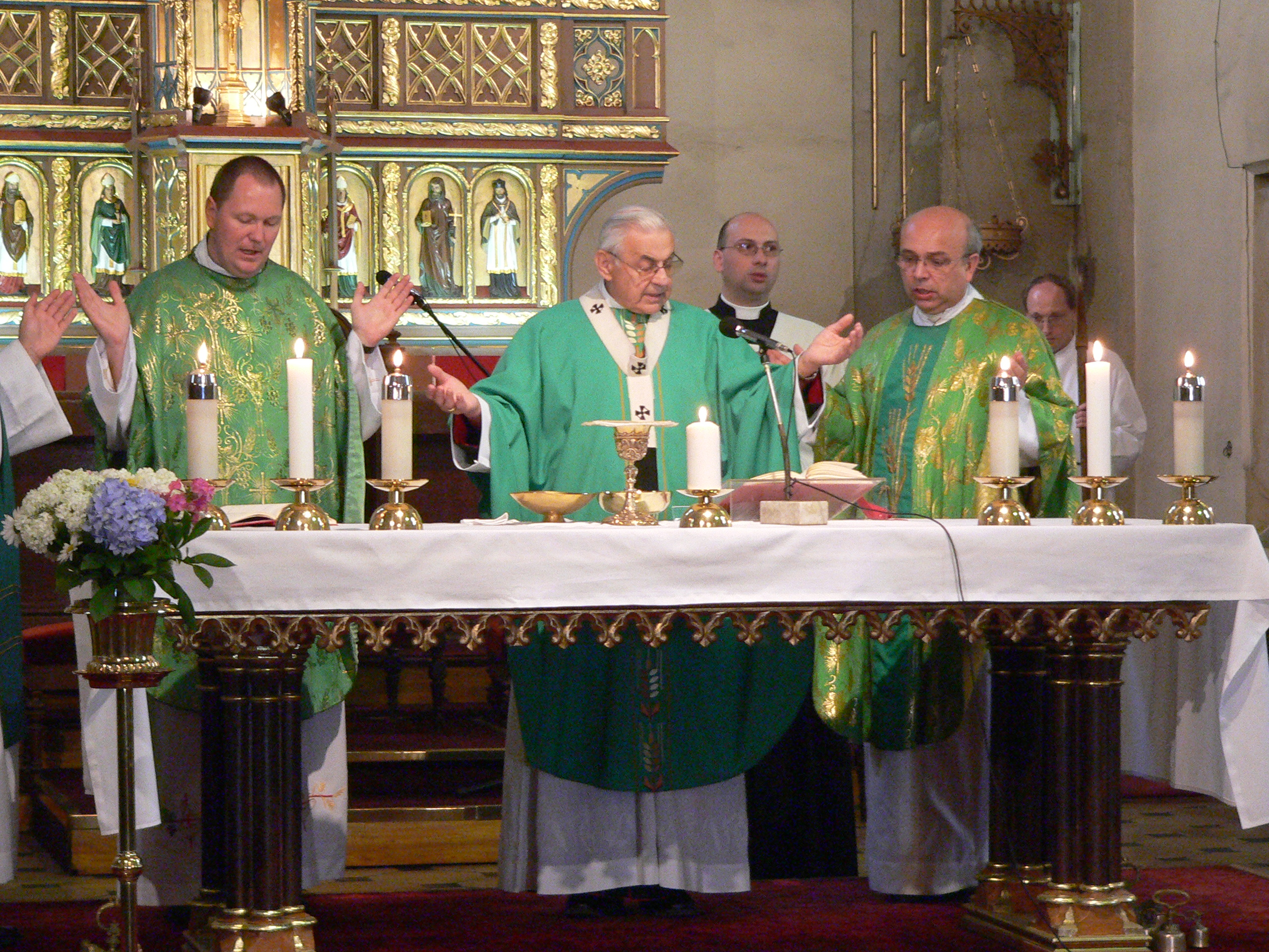 Esperanto Holy Mass, celebrated by Cardinal Miloslav Vlk during the International Youth Congress of Esperanto in the St. Anthony the Great Church, Liberec, Czechia.